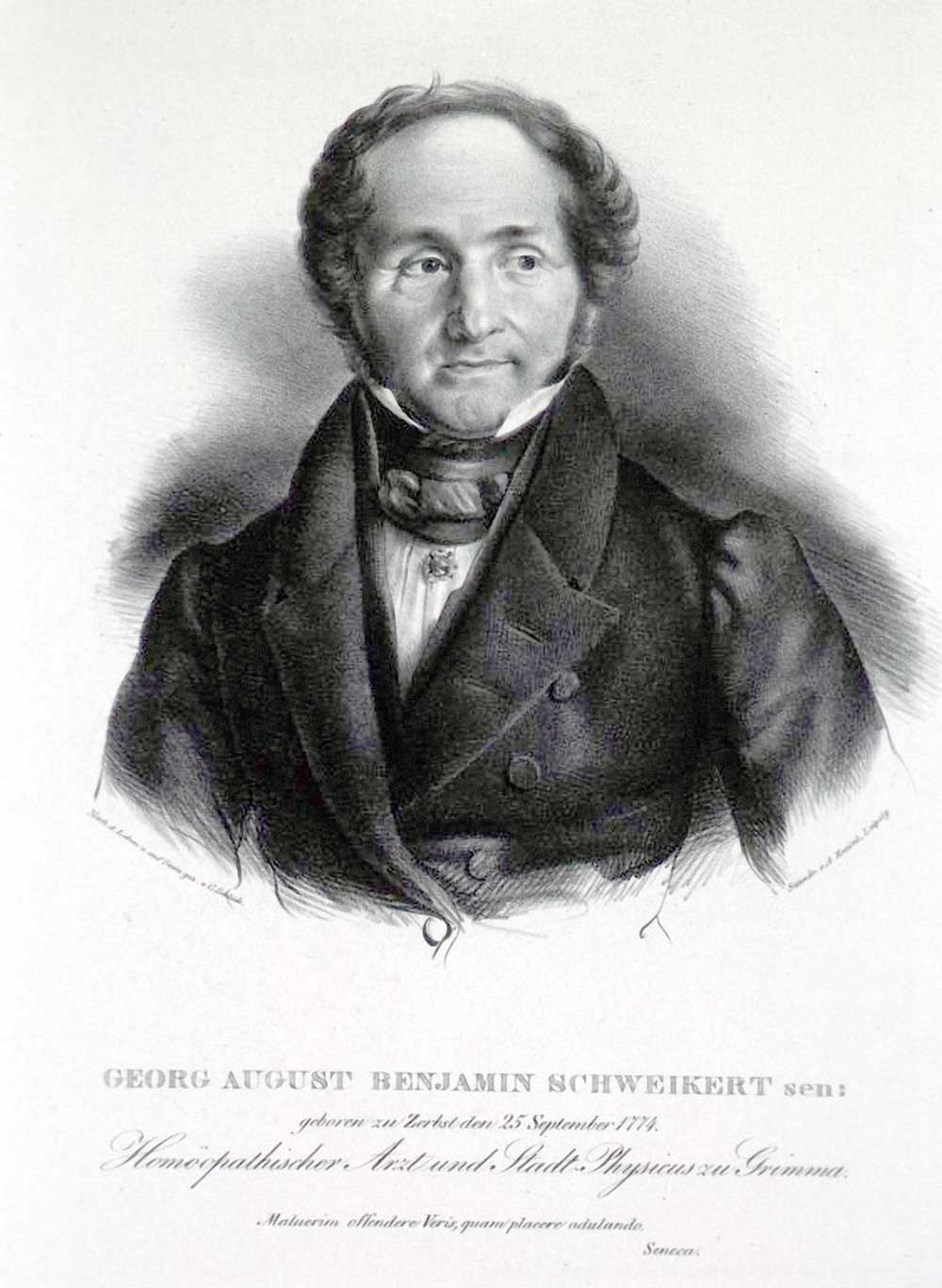 Georg August Benjamin Schweikert (1774-1845) German physician and pioneer of homeopathy